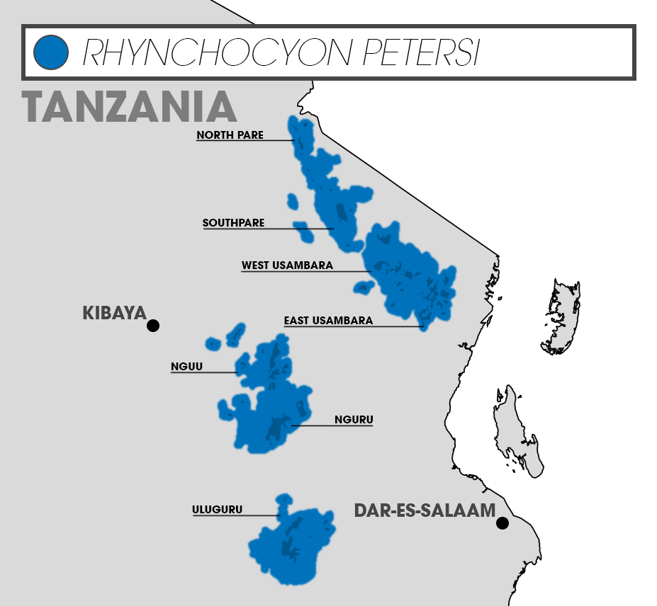 Location of Rhynchocyon petersi in the Eastern Arc Mountains of Tanzania. Species distributions are limited to small forest patches (darker blue) within each mountain range (in blue, marked with black pointers).[1]